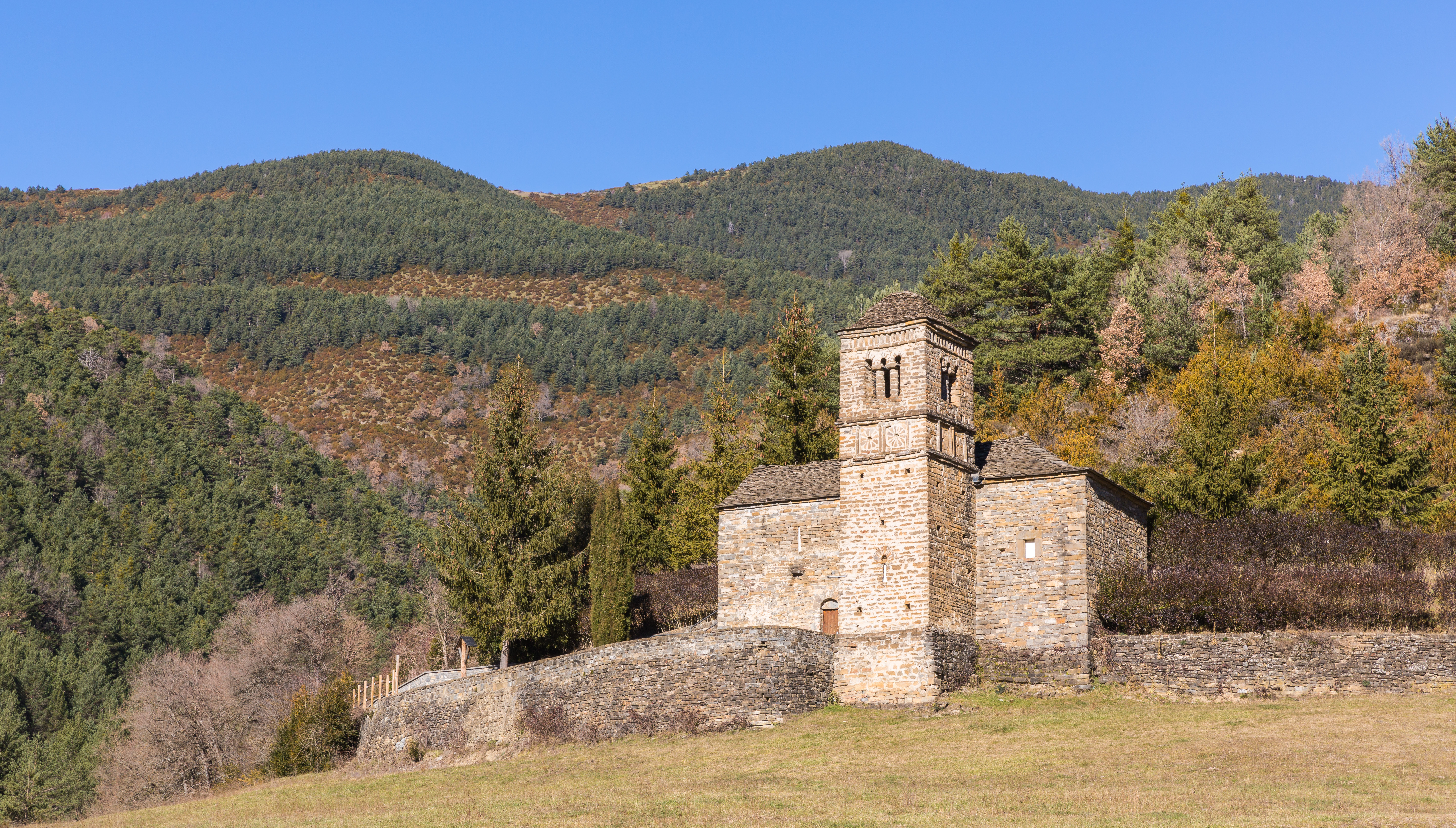 Church of St. Bartholomew, Gavín, Huesca, Spain